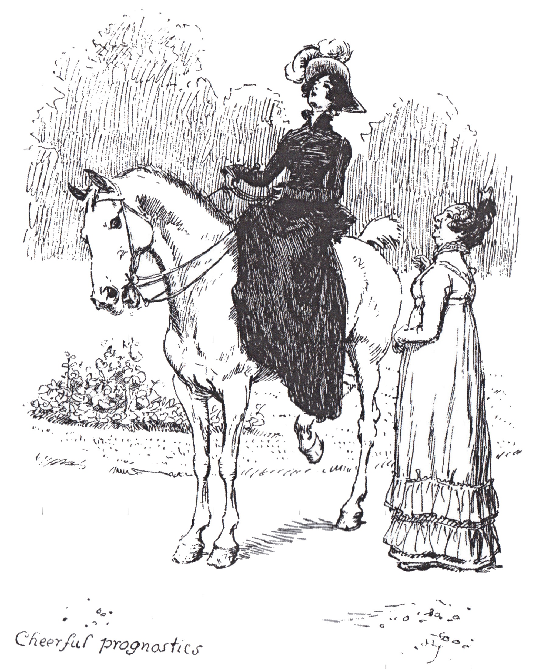 Illustration for Pride and Prejudice, ch. 7: cheerful prognostics